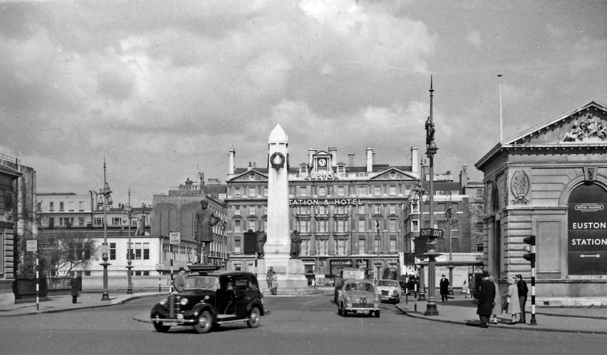 Entrance to Euston Station, after removal of Doric Arch. View NW from Euston Road. The two flanking 'classical' lodges remain, the LNWR War Memorial is prominent. The Station is beyond the Euston Hotel, which also disappeared in the 1960s rebuilding. [Several views taken this day follow, showing the old Euston Station just before its demolition].